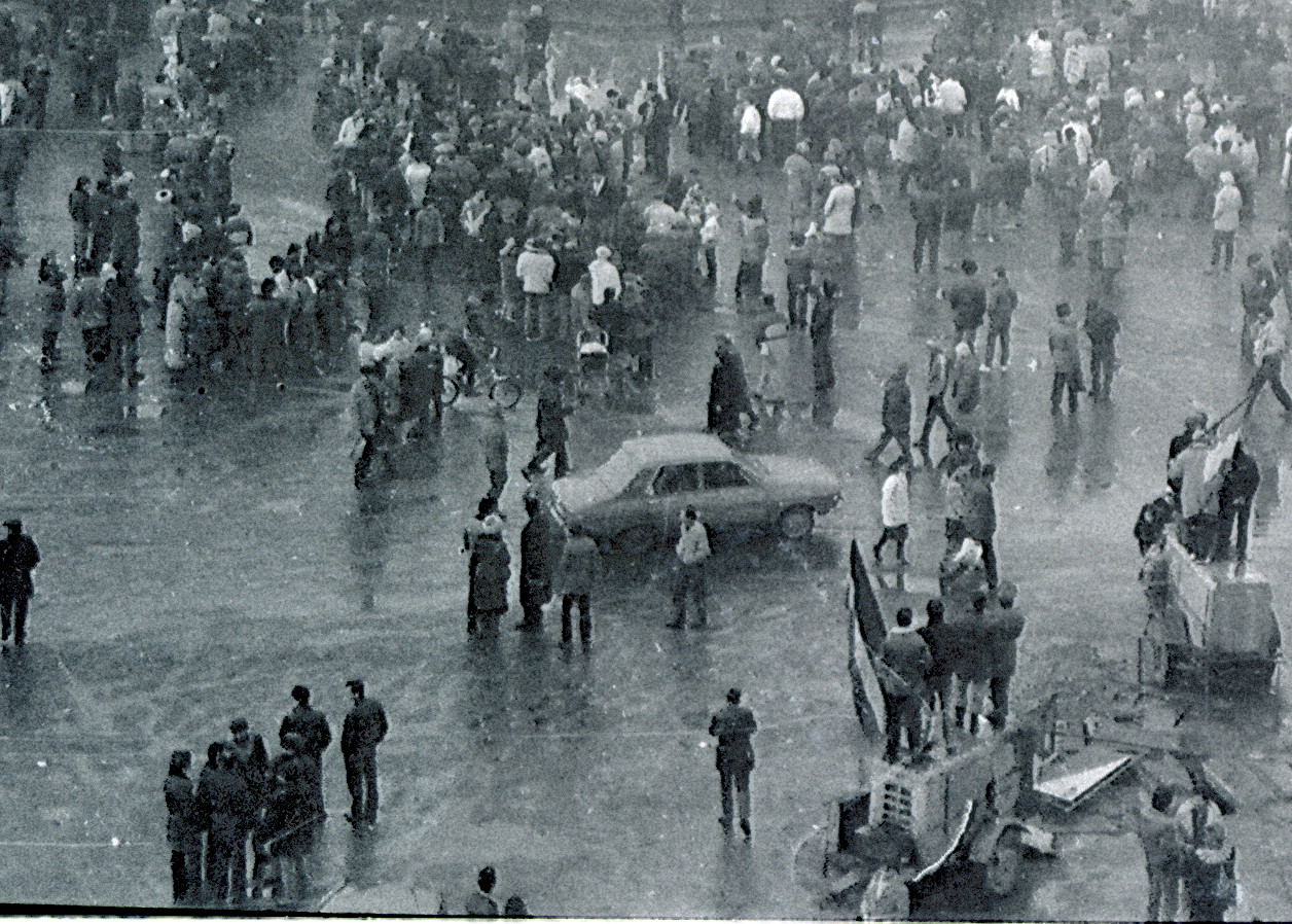 Mineriad in early 1990 Bucharest Palatul Victoriei